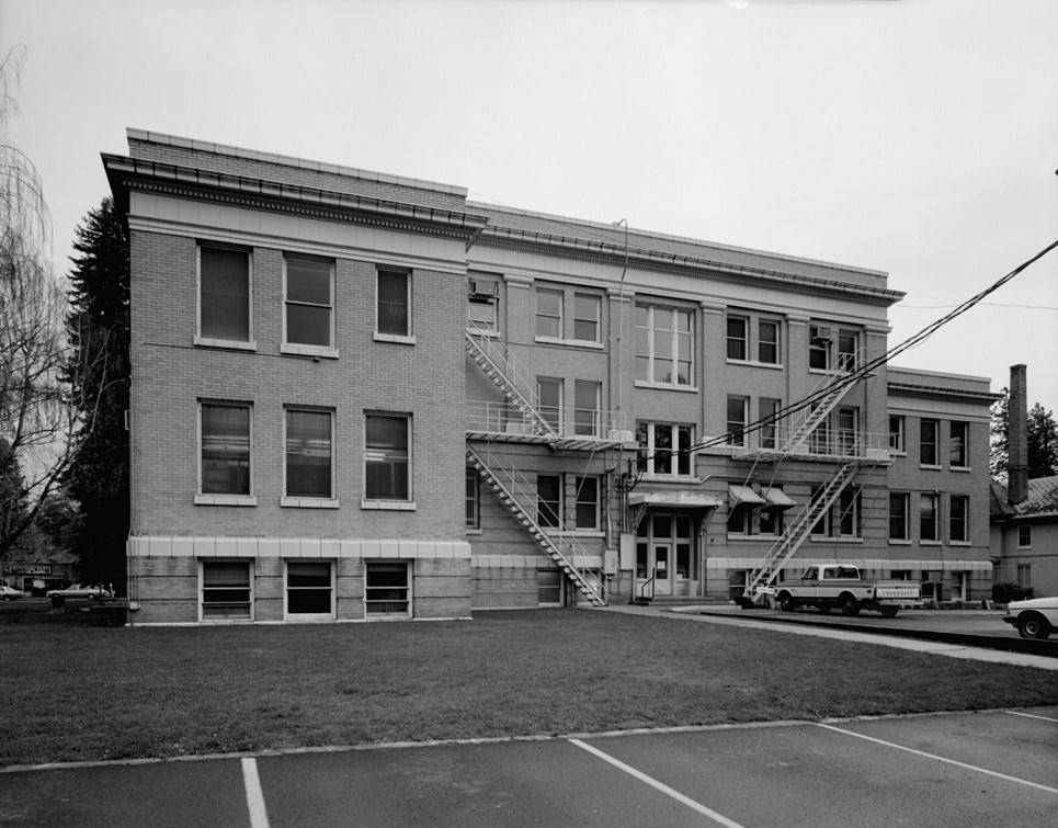 Rear of the Kootenai County Courthouse, located at 501 Government Way in Coeur d'Alene, Idaho, United States. Built in 1925, the courthouse is listed on the National Register of Historic Places.